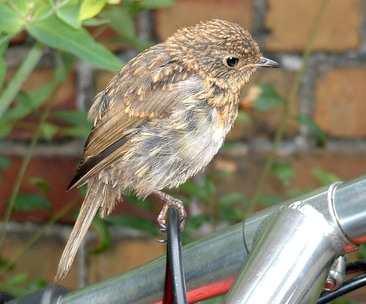 Immature European Robin